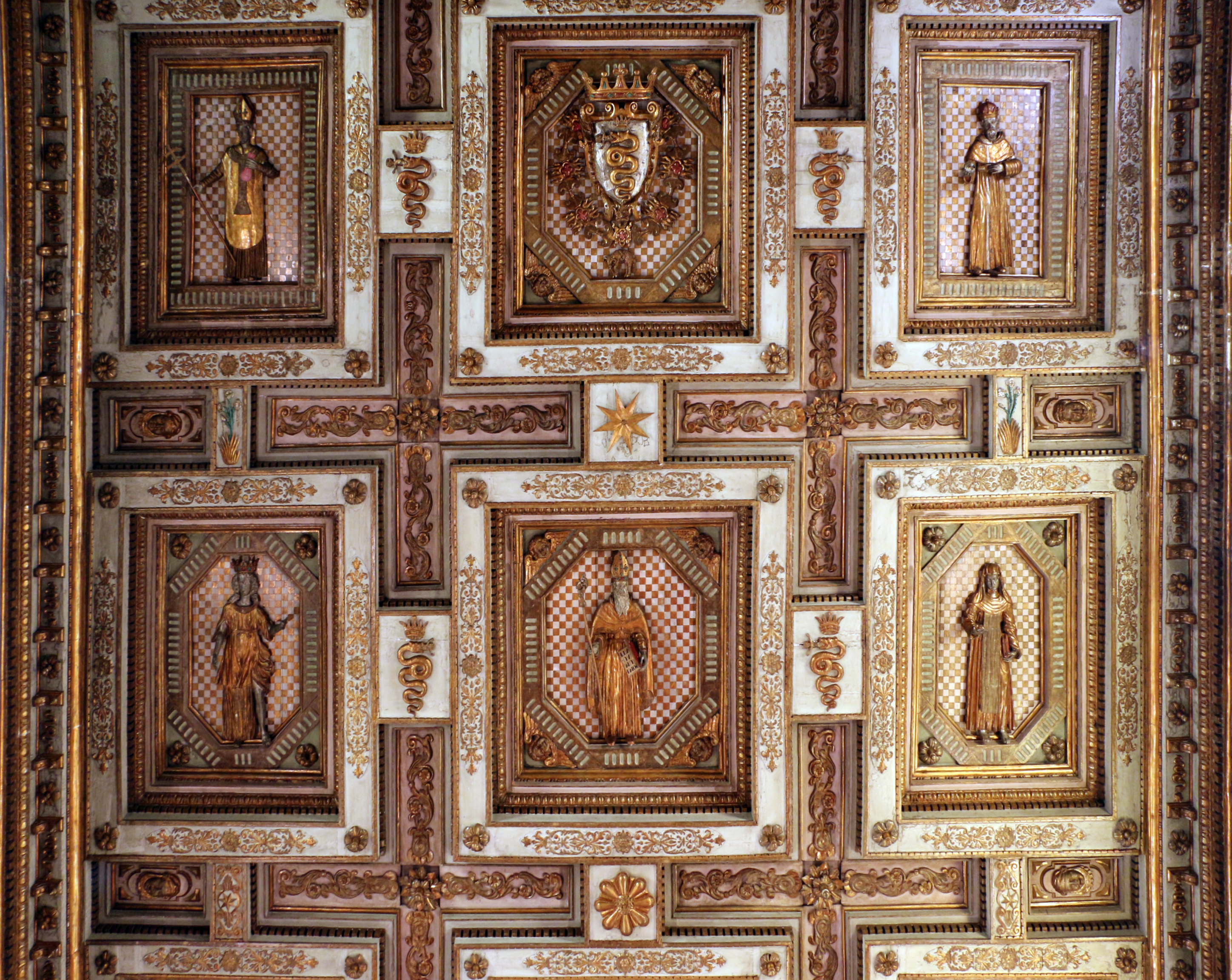 Basilica di San Nicola da Tolentino (Tolentino)